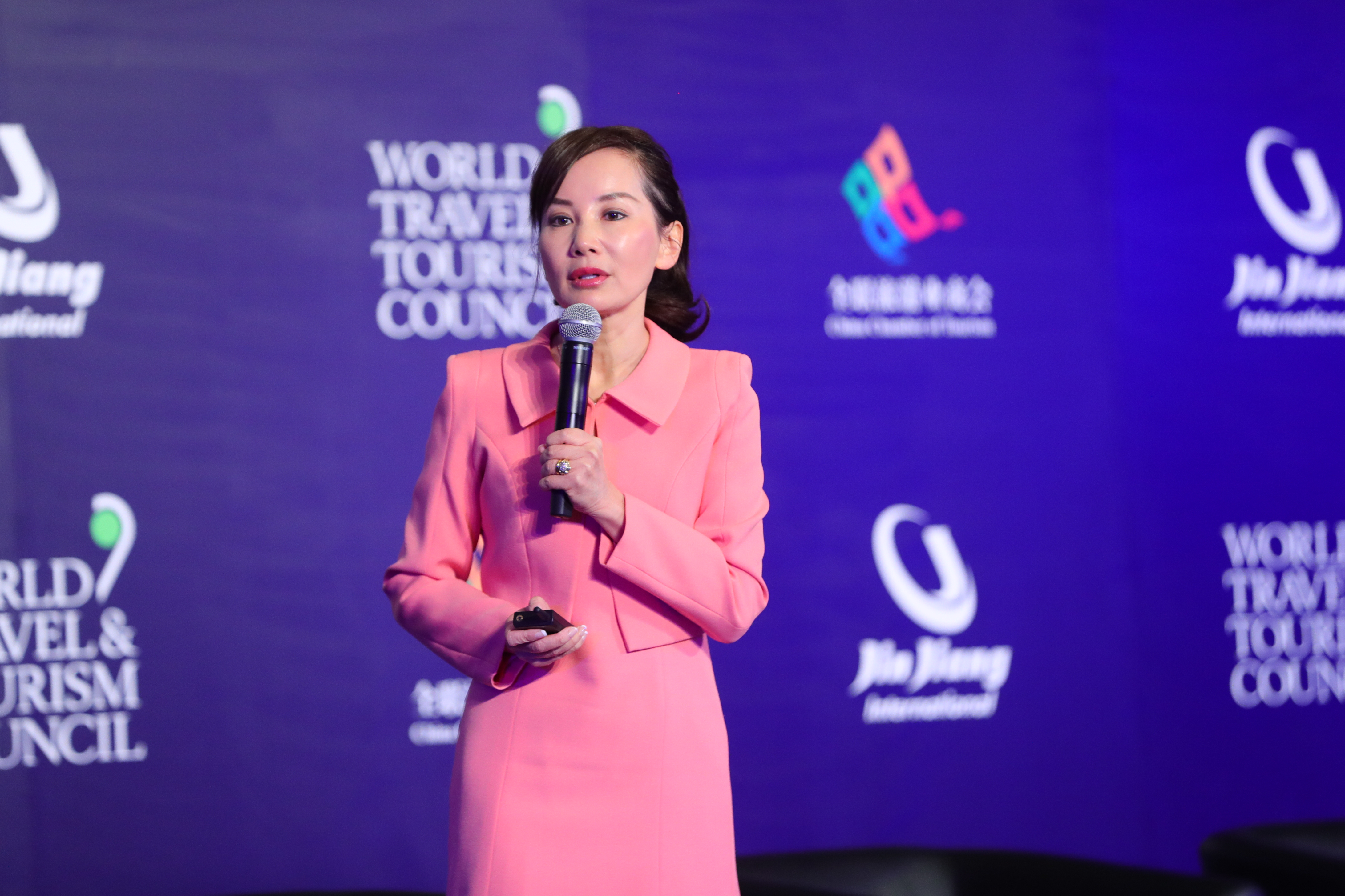 Jane Sun, Chief Executive Officer, Group